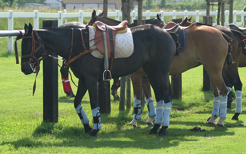 photographed on a polo field in Switzerland by myself